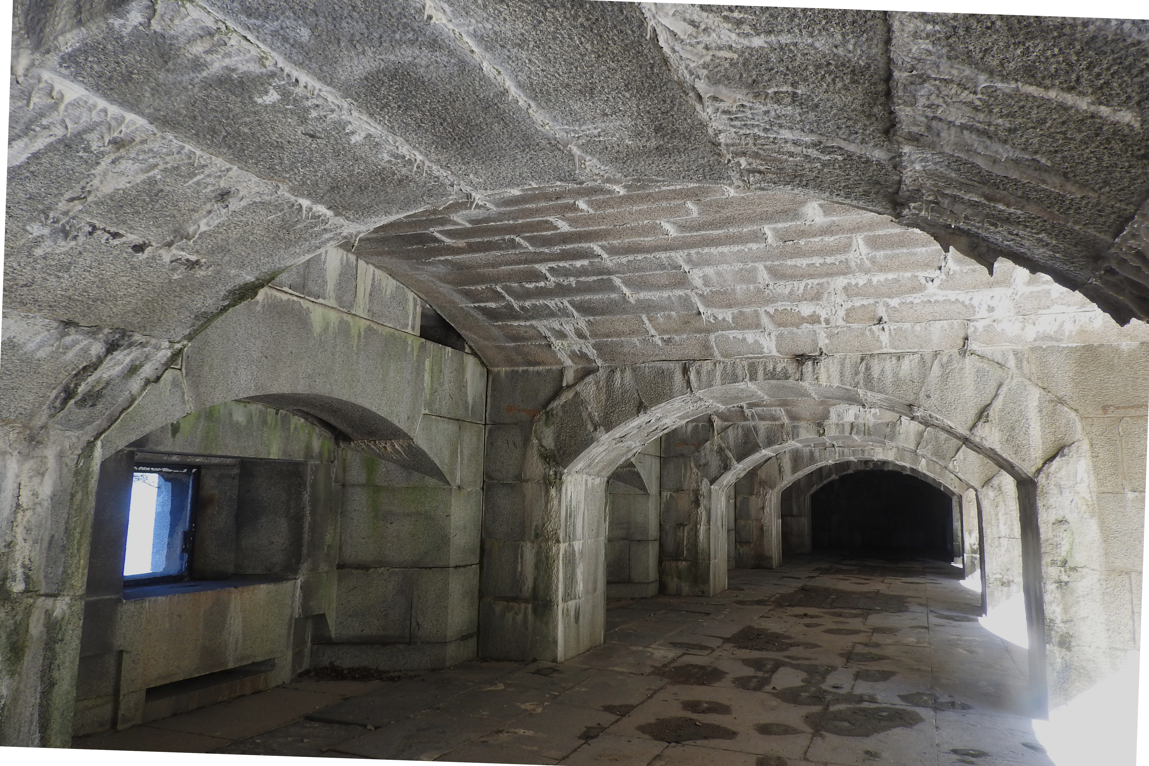 Looking east inside the Battery